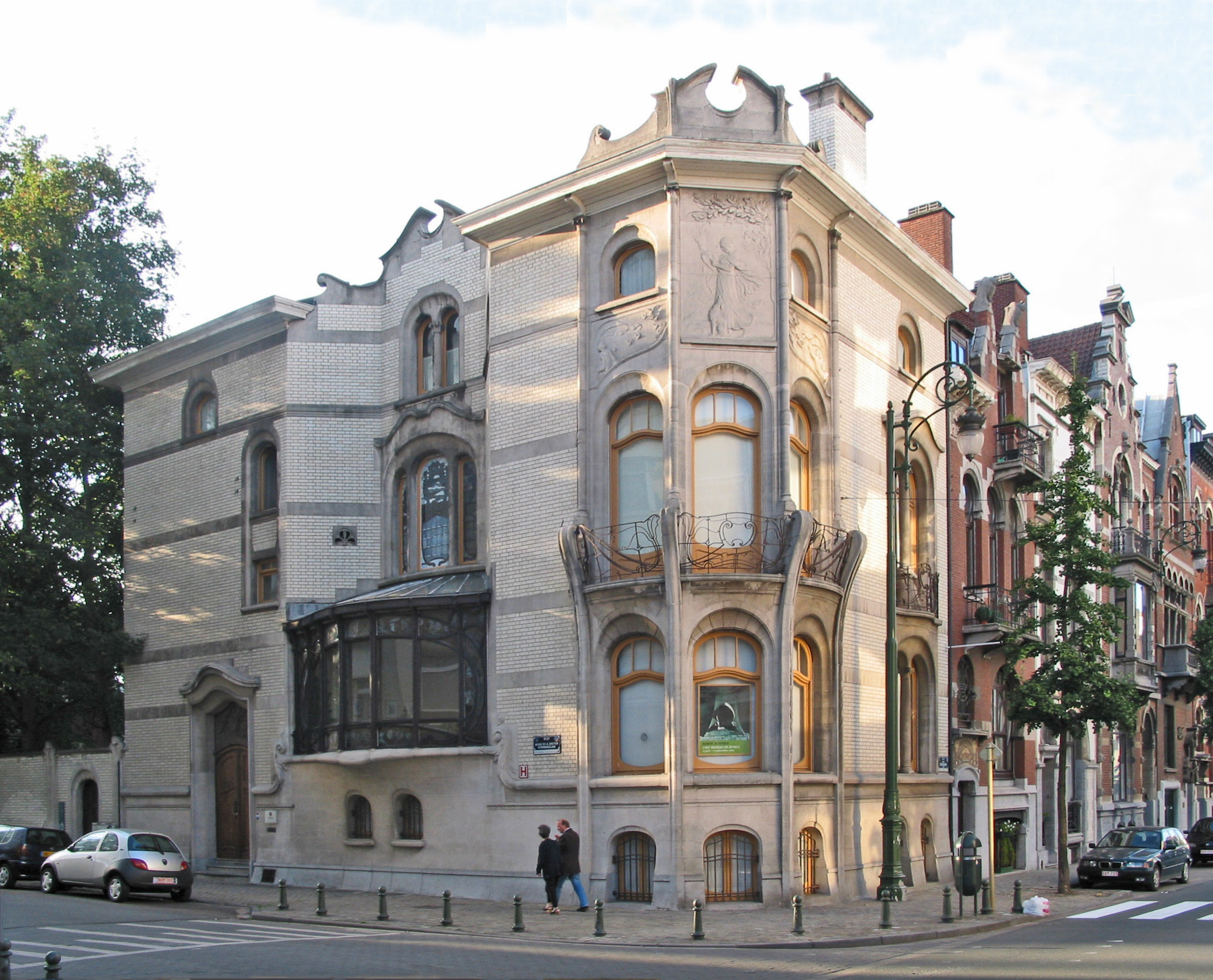 Saint-Gilles, Belgium, Hotel Hannon façade, Avenue de la Jonction, 1 (1903 - Architect: Jules Brunfaut – Sculptor : Victor Rousseau).